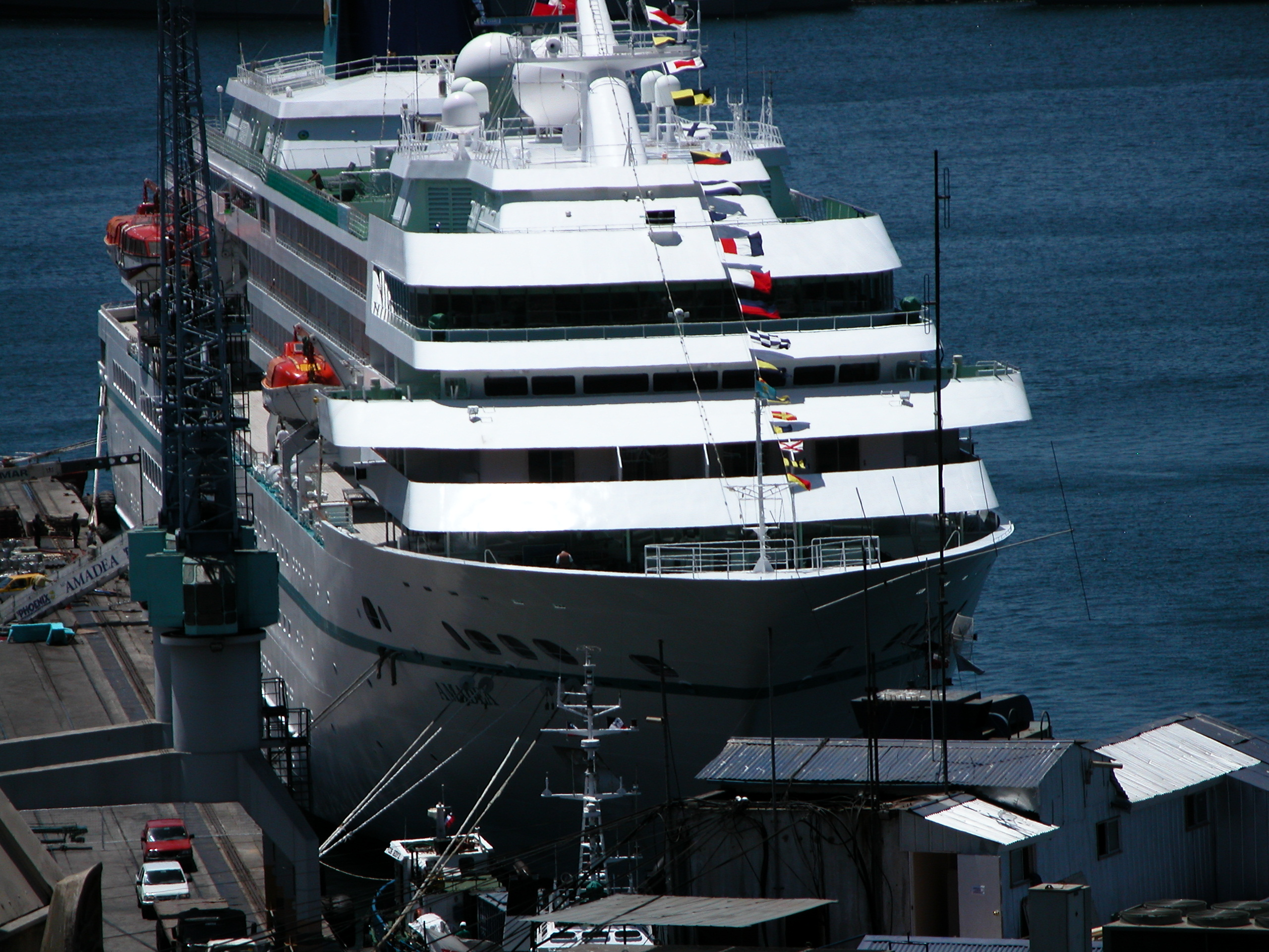 AMADEA ship in the port of Valparaiso on the 25 of January 2007 IMO Number: 8913162 MMSI Number: 308445000 Callsign: C6VE9 Length: 193 m Beam: 28 m FORMER NAMES since 2006 Mar 03 ASUKA